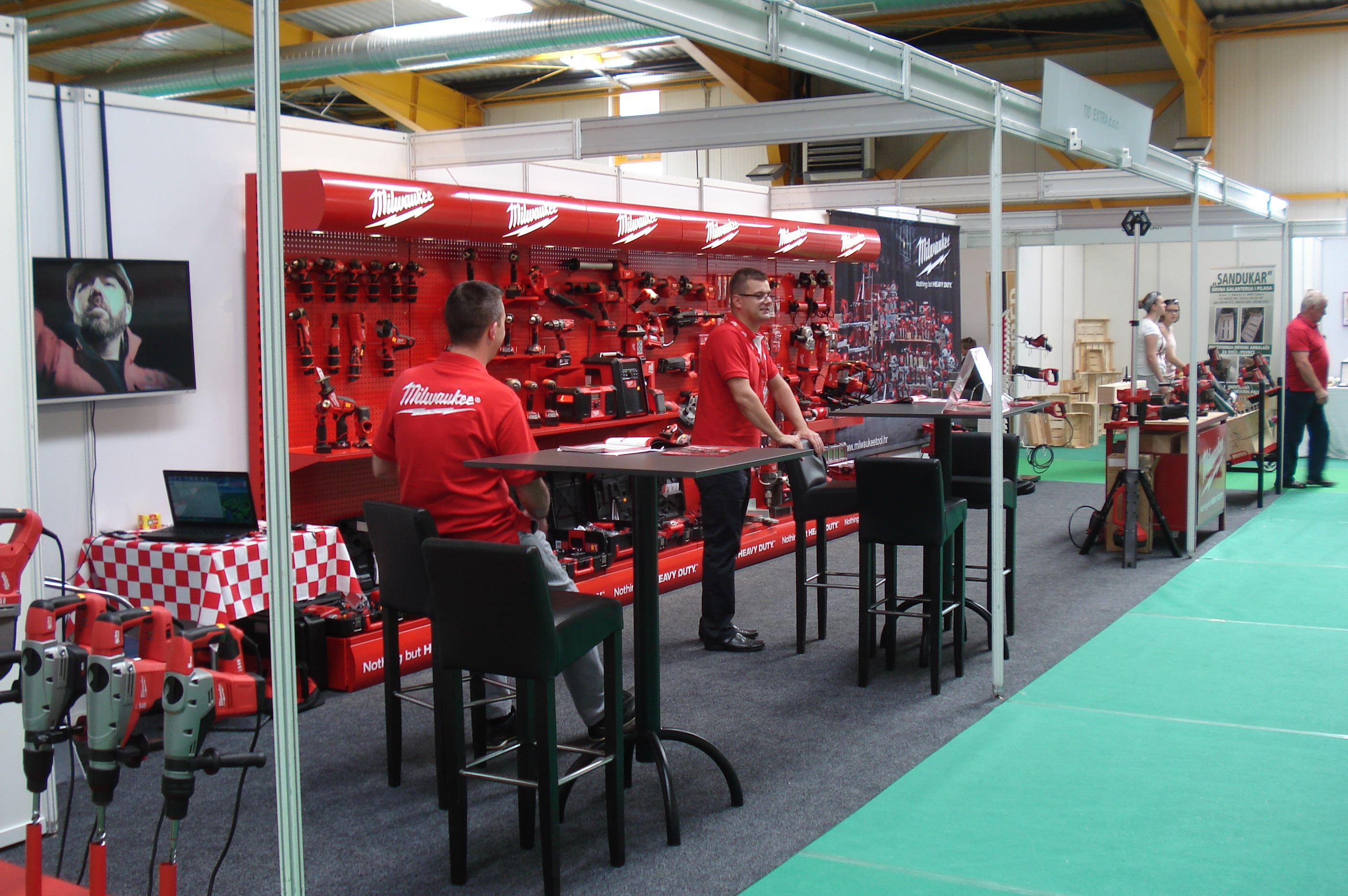 MESAP 2016. trade fair in Nedelišće, Medjimurje County, Croatia - tools exhibition booth